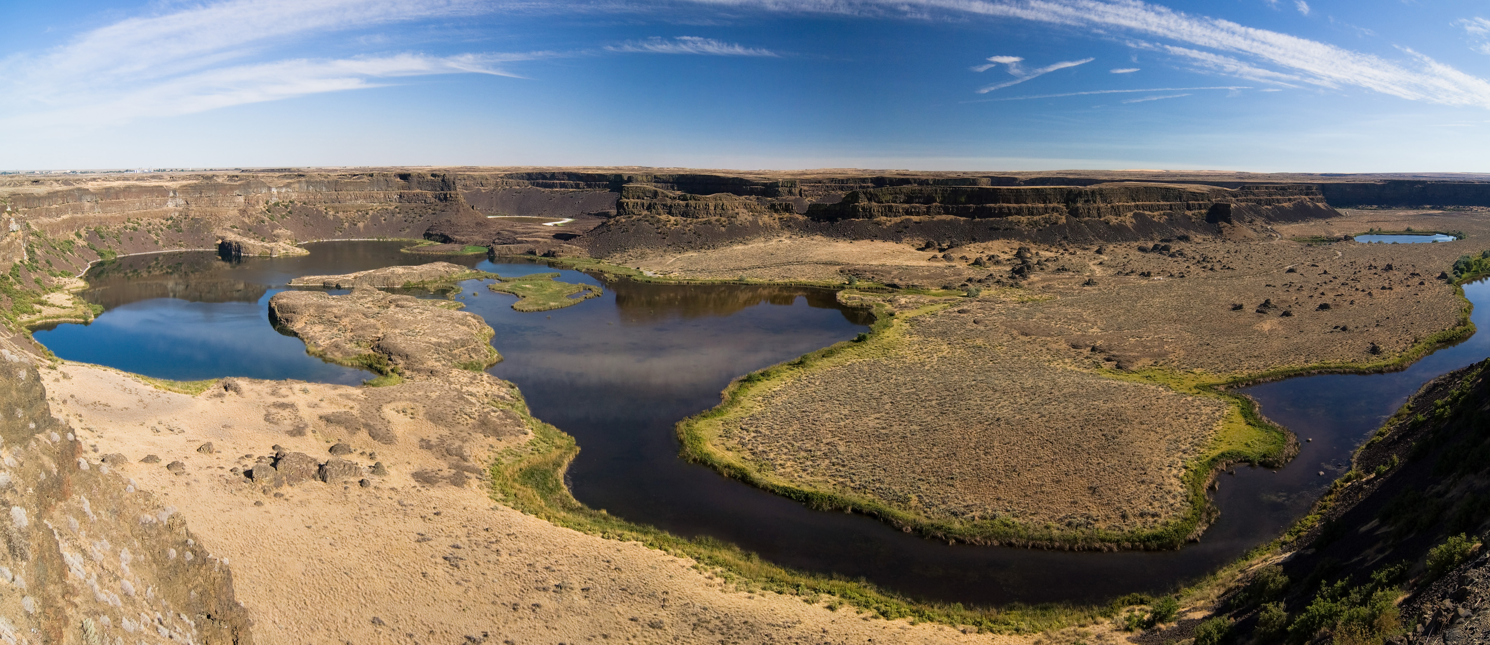 Dry Falls, WA